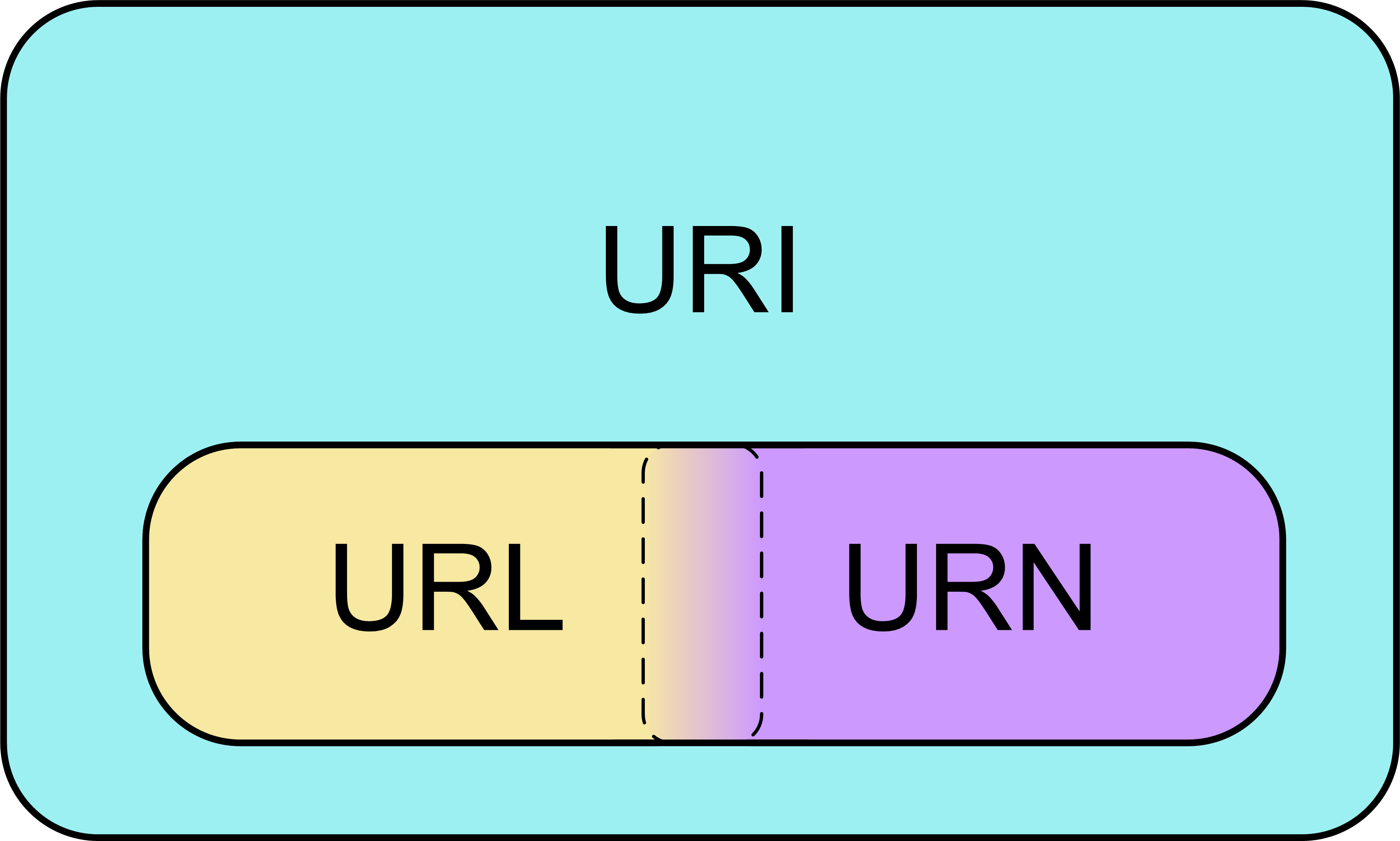 A Venn diagram of Uniform Resource Identifier scheme categories.